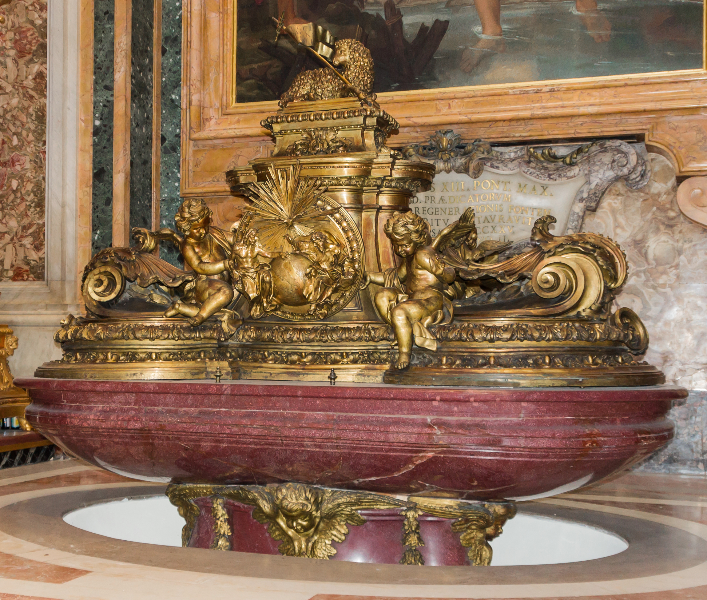 Baptismal fonts in the Saint Peter's Basilica. Vatican City. Some theory says it may have been the sarcophagus of Emperor Hadrian, from the Mausoleum of Hadrian.